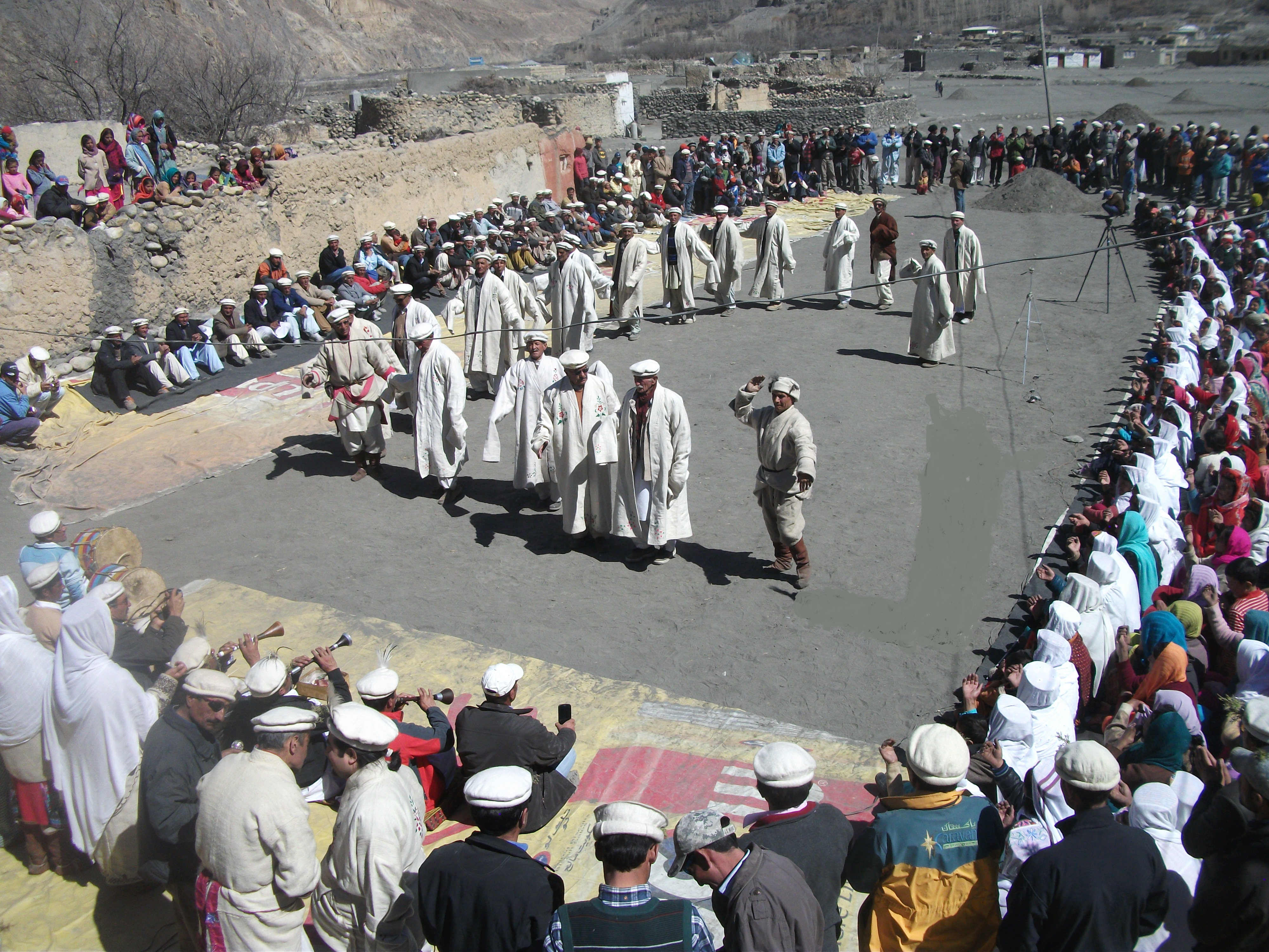 Traditional dance of Shimshal valley performed by elders in traditional attire by using the melodious sounds of Bansuri, Dadang and Damal.